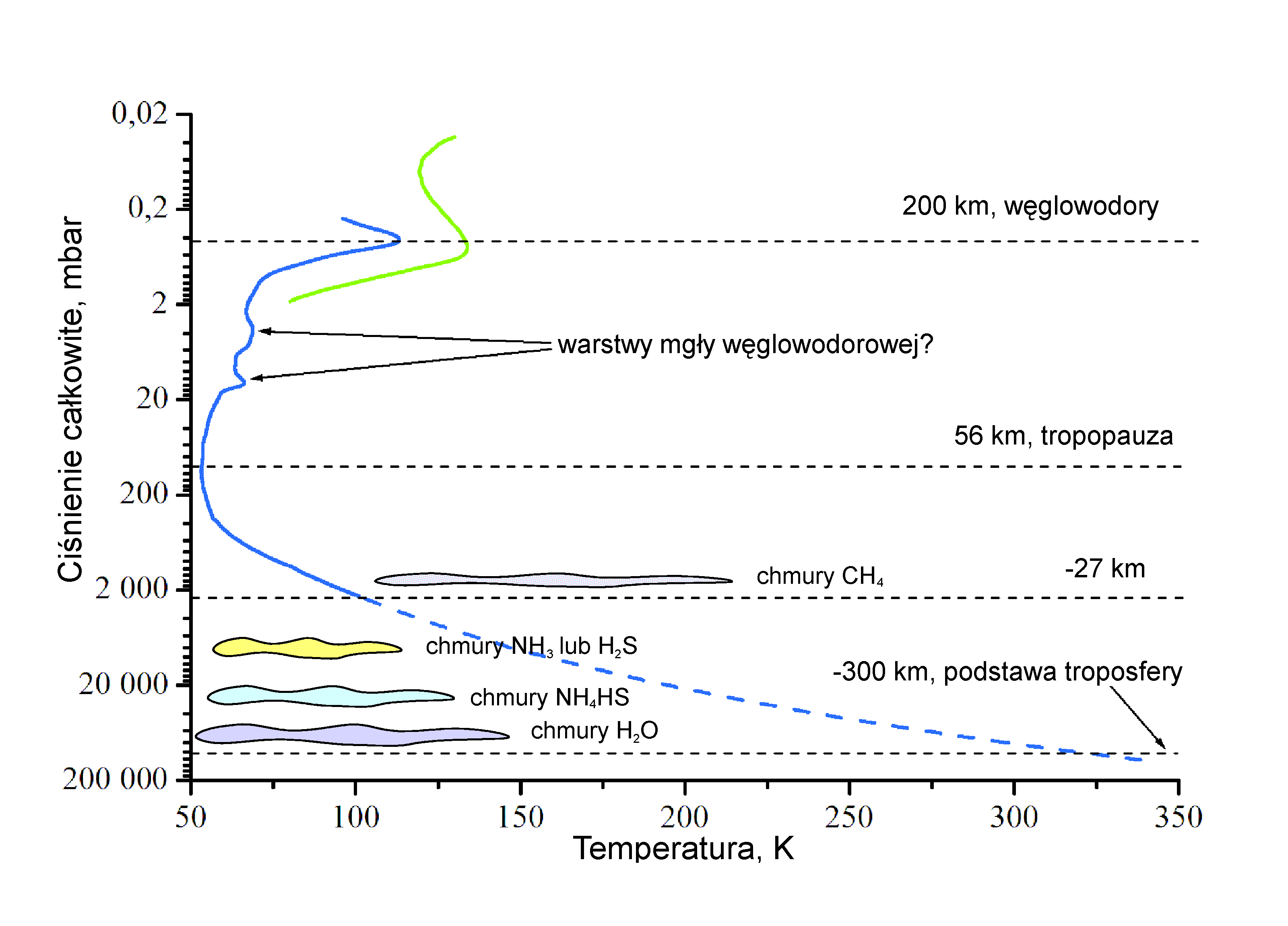 This graph shows temperature profile in the troposphere and in the lower stratosphere of Uranus. Heights are also indicated. The blue curve is from Lindal et al.[1]. The green curve is from Bishop et al.[2] The dashed blue curve is an extrapolation of the 1987 Lindal et al. data[1] using a constant lapse rate of 0.82 K/km. The graph also shows locations of the main cloud and haze layers according to 1990 Bishop et al.[2], Atreya et al.[3] and dePater et al. [4]